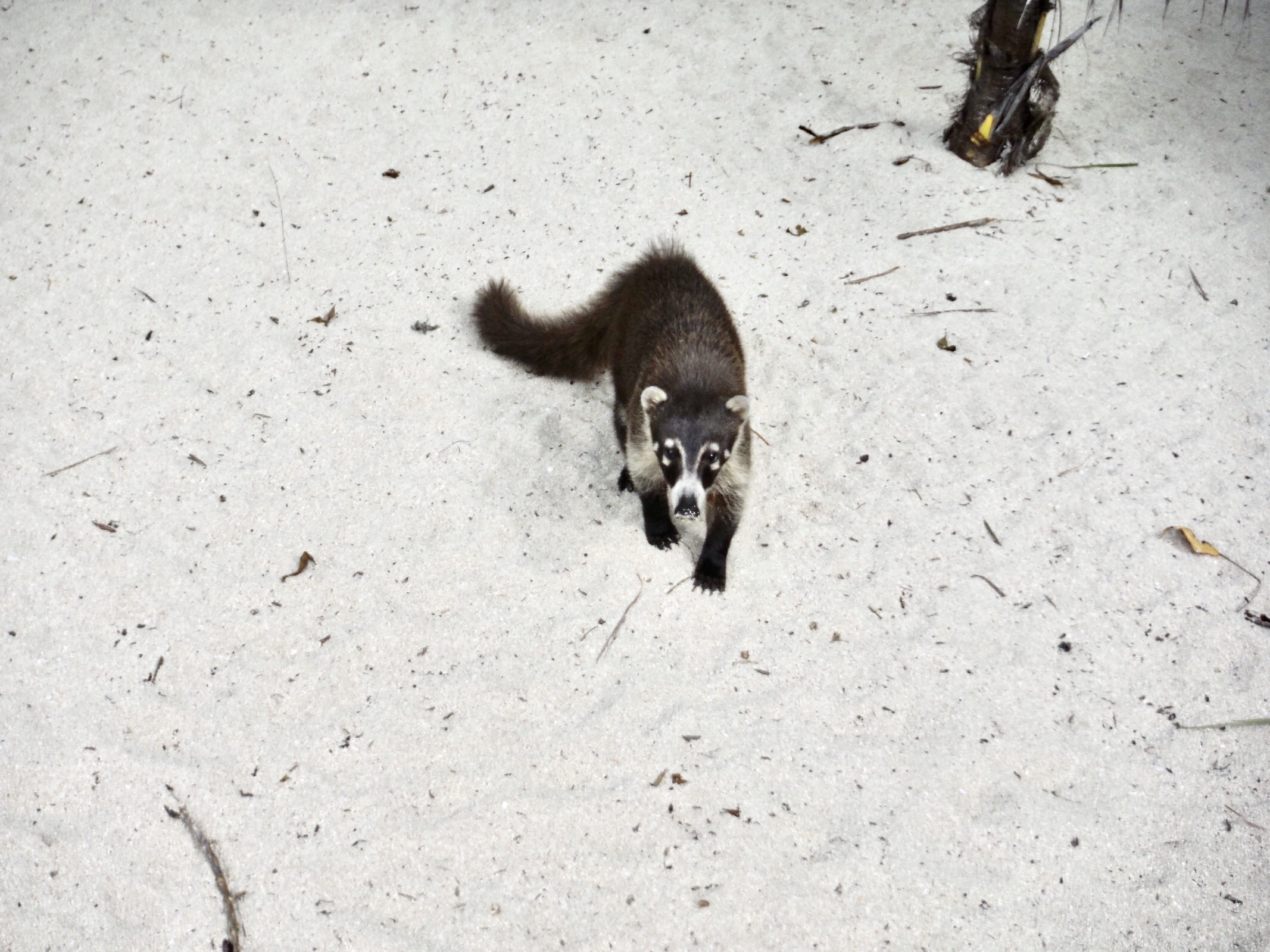 Cozumel Coati. Taken Jan 2020 Fury Beach, Cozumel México. @Shari Linger